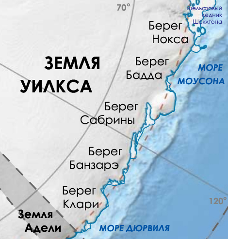 Wilkes Land on East Antarctica map (in Russian)